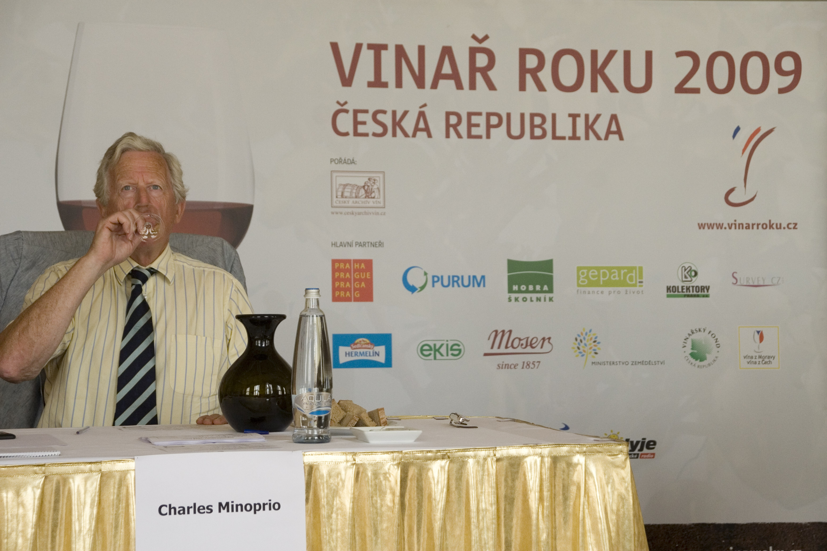 Winemaker of the year 2009 (Czech Republic)